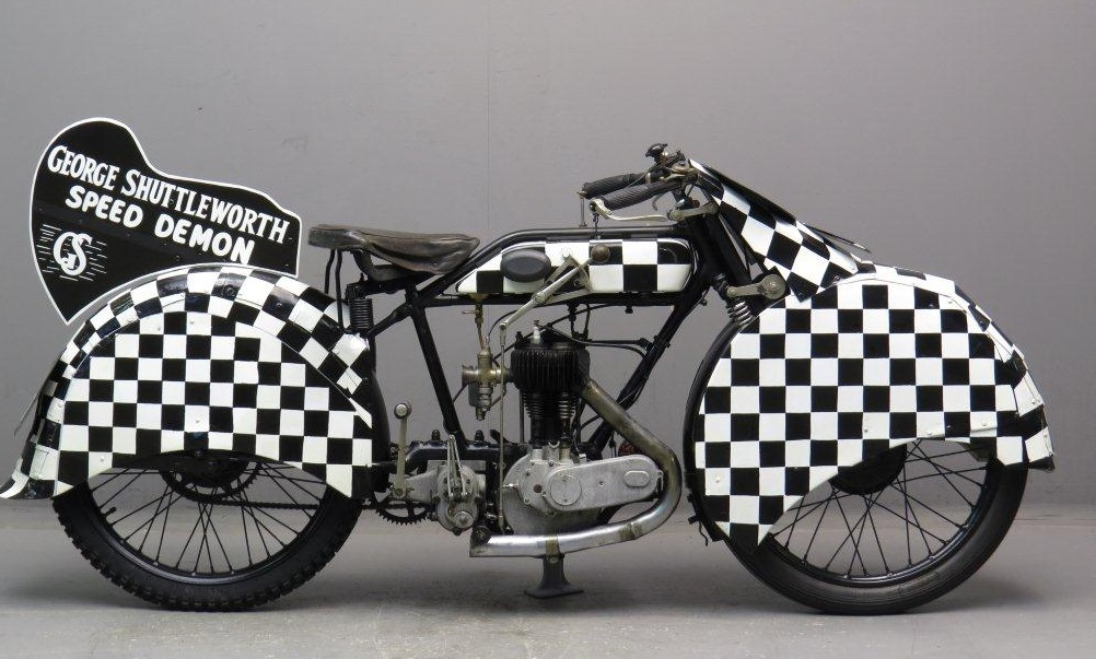 AJS H5 Shuttleworth Snap replica as used in the movie "No Limit" in 1935